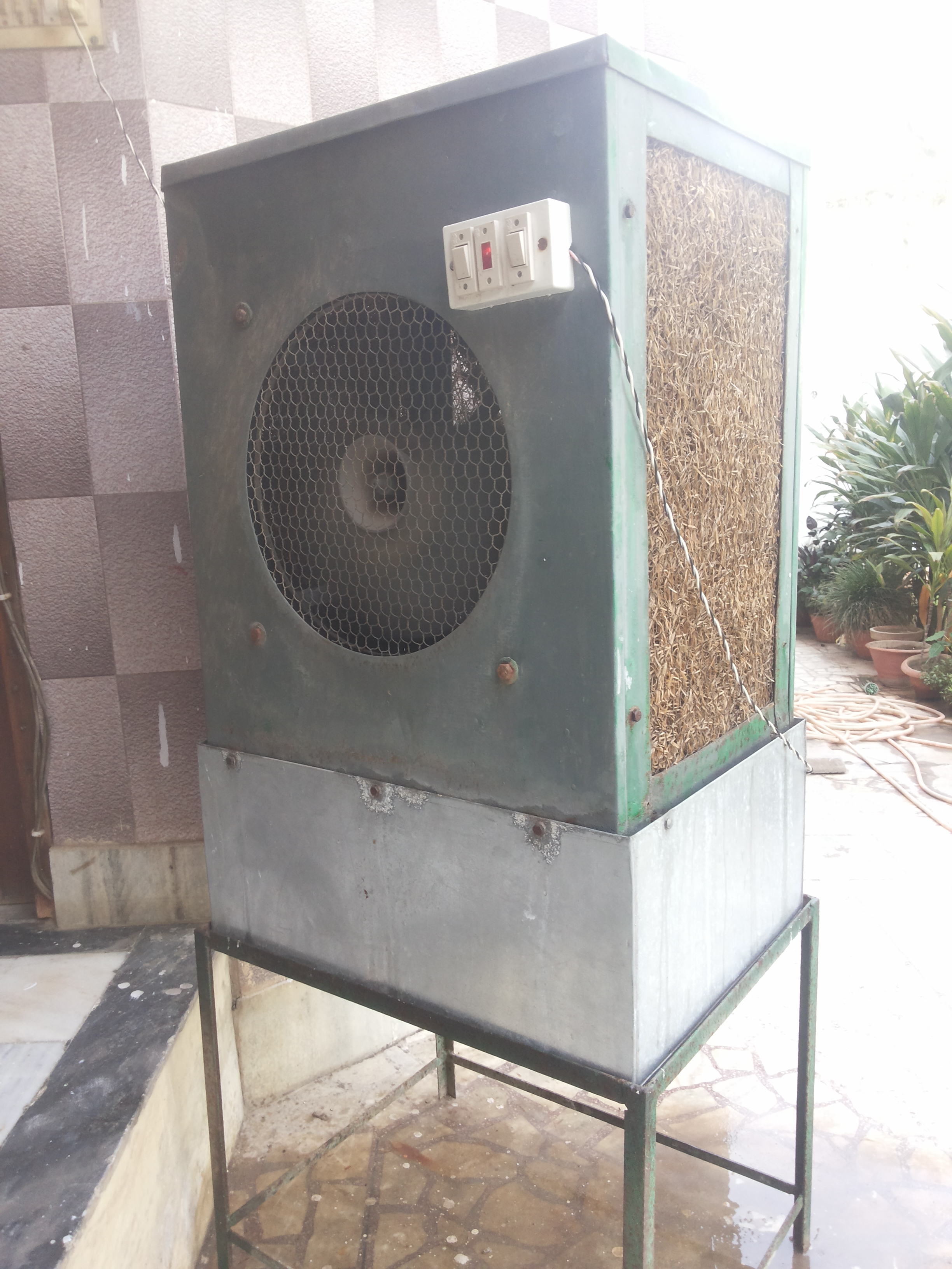 A traditional air cooler in North India